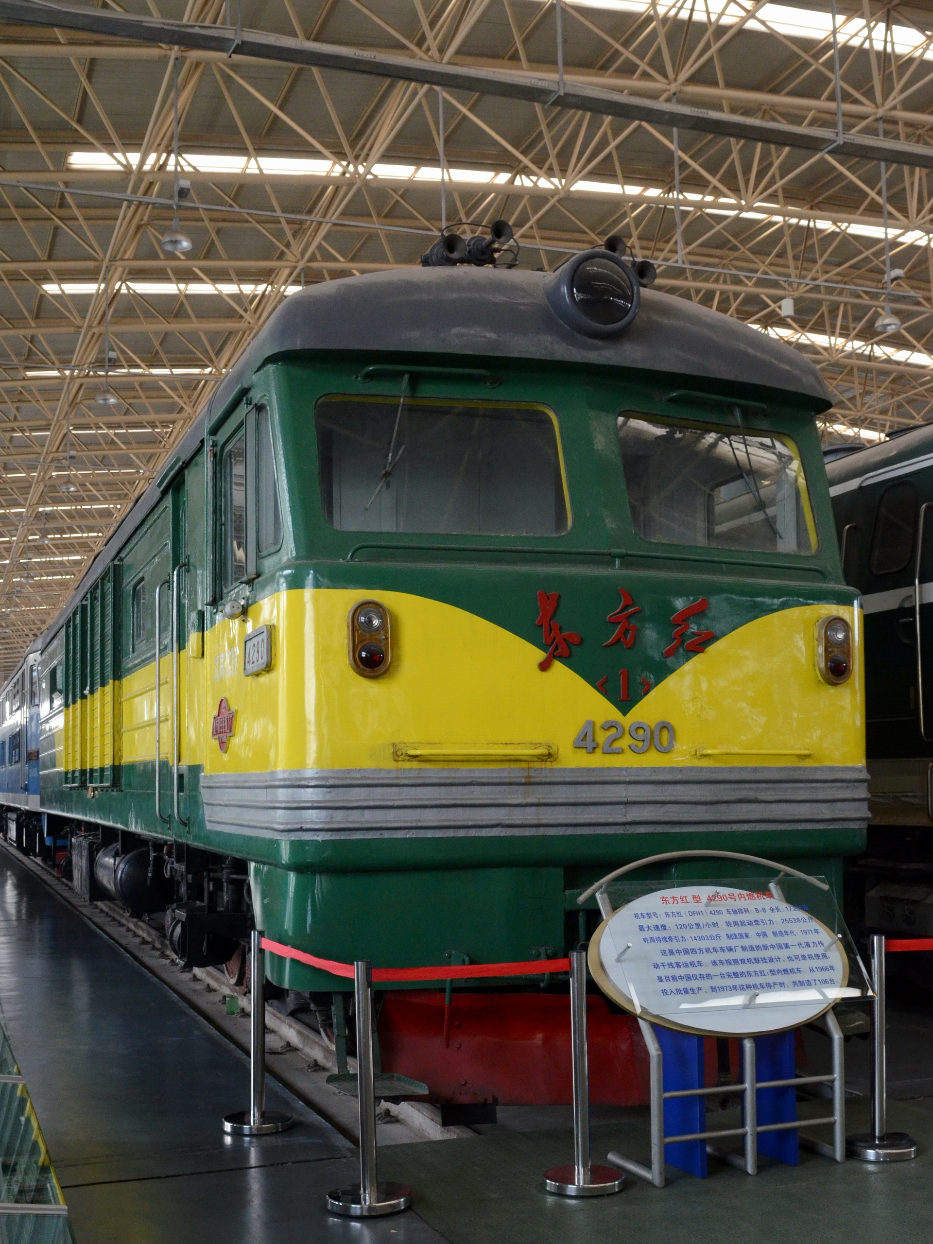 Dongfanghong1 4290 locomotive